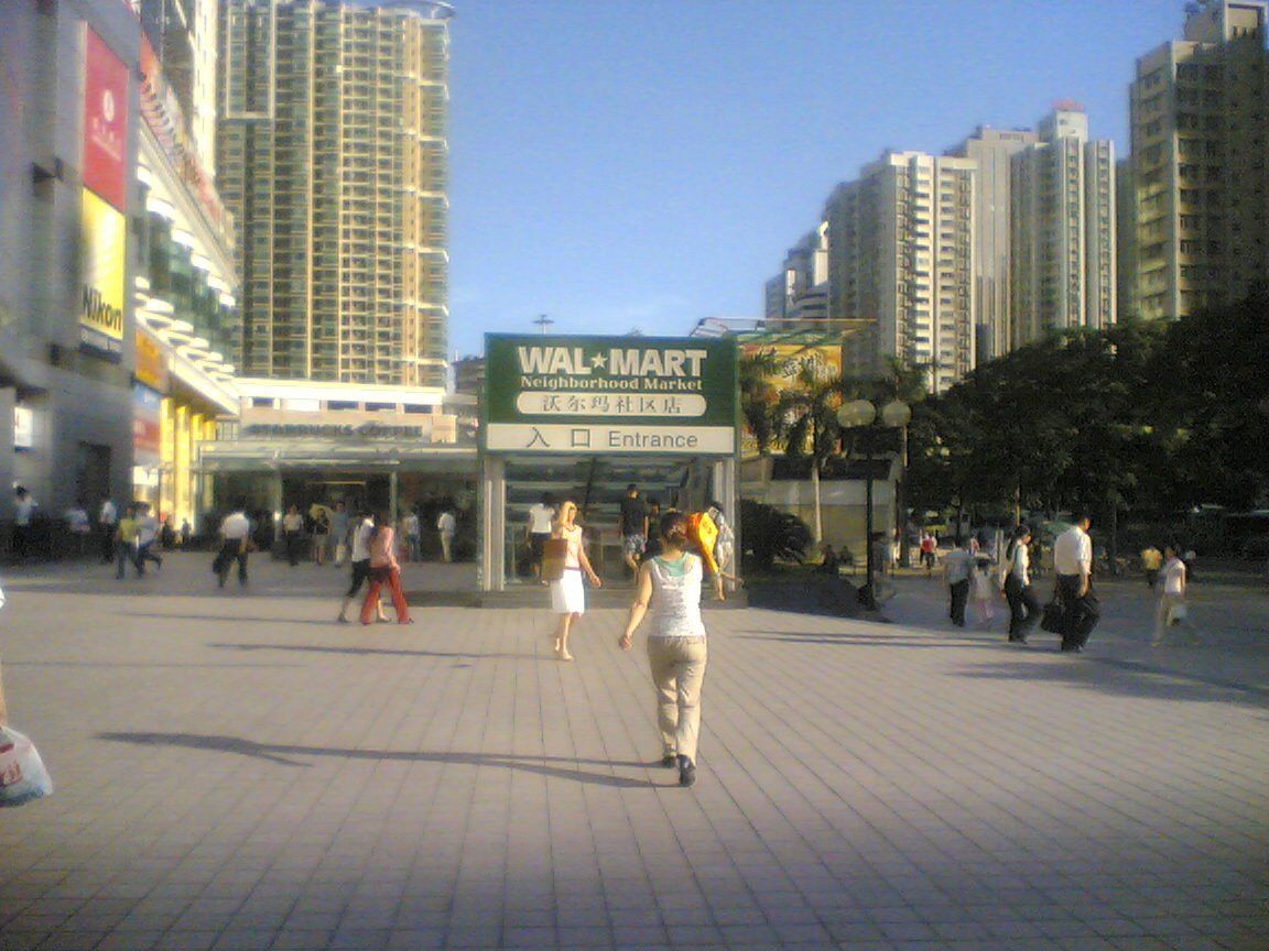 China Shenzhen - Walmart store entrance - July 2005